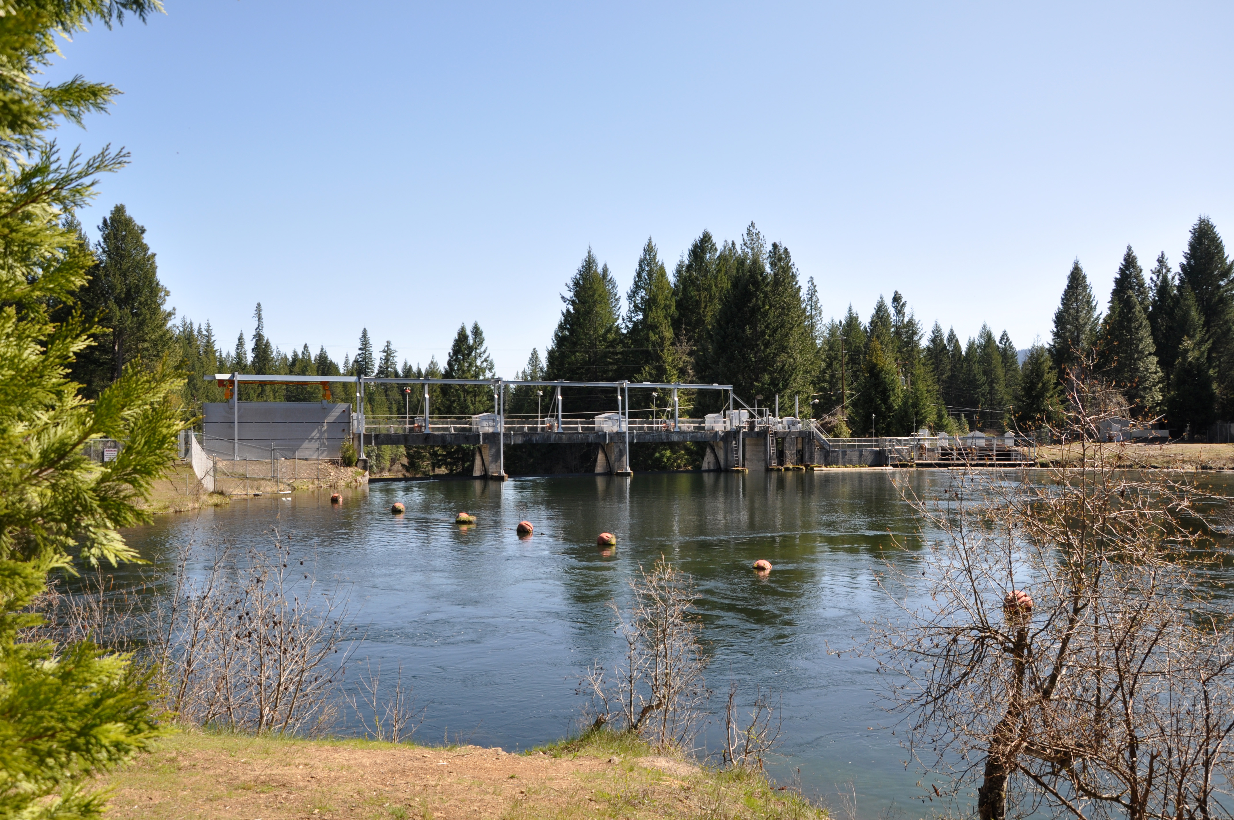 Hydroelectric diversion dam on the Rogue River at Prospect in the U.S. state of Oregon. At about river mile 172 (river kilometer 277), this is the uppermost dam on the river.